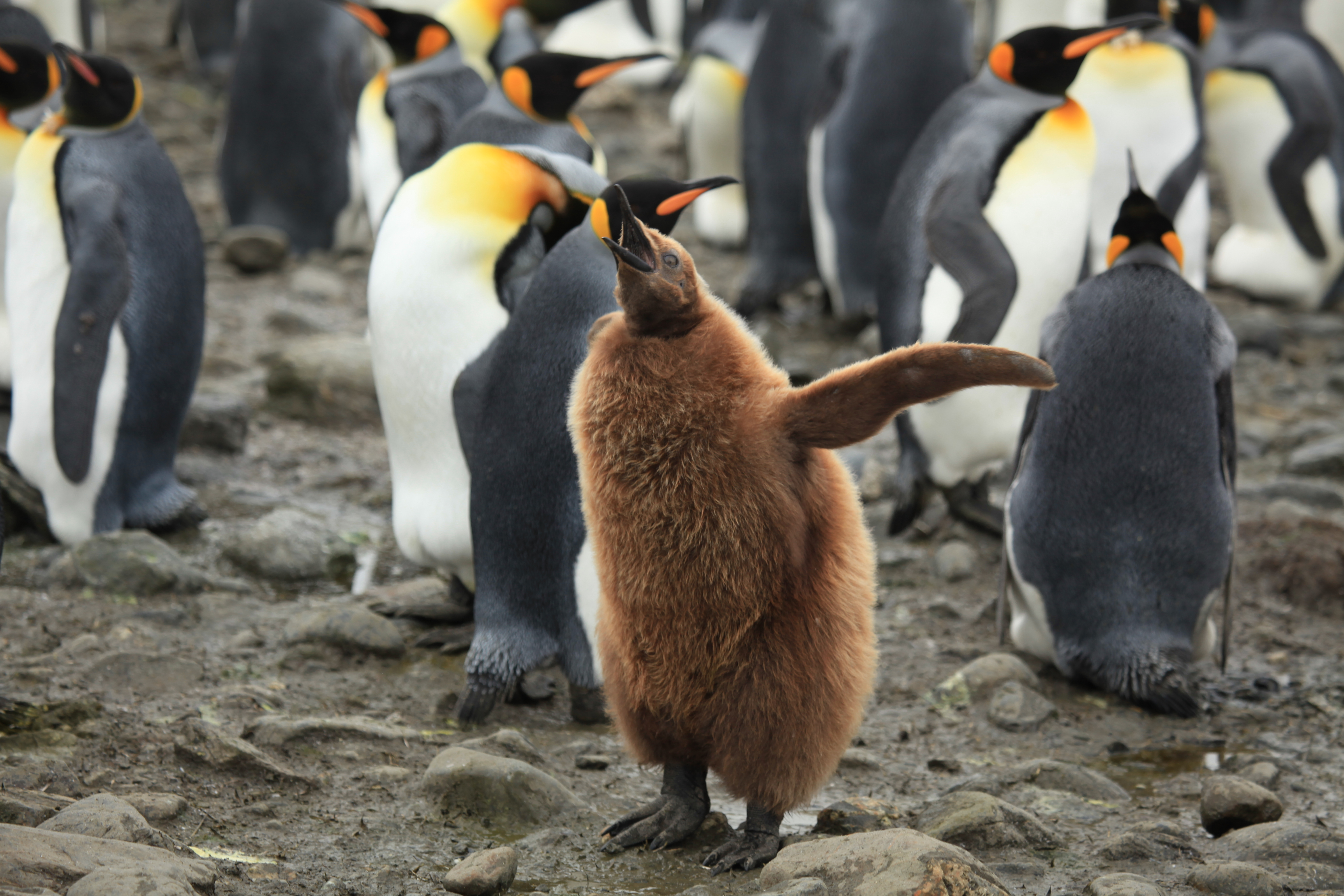 King Penguin Chick at Salisbury Plain